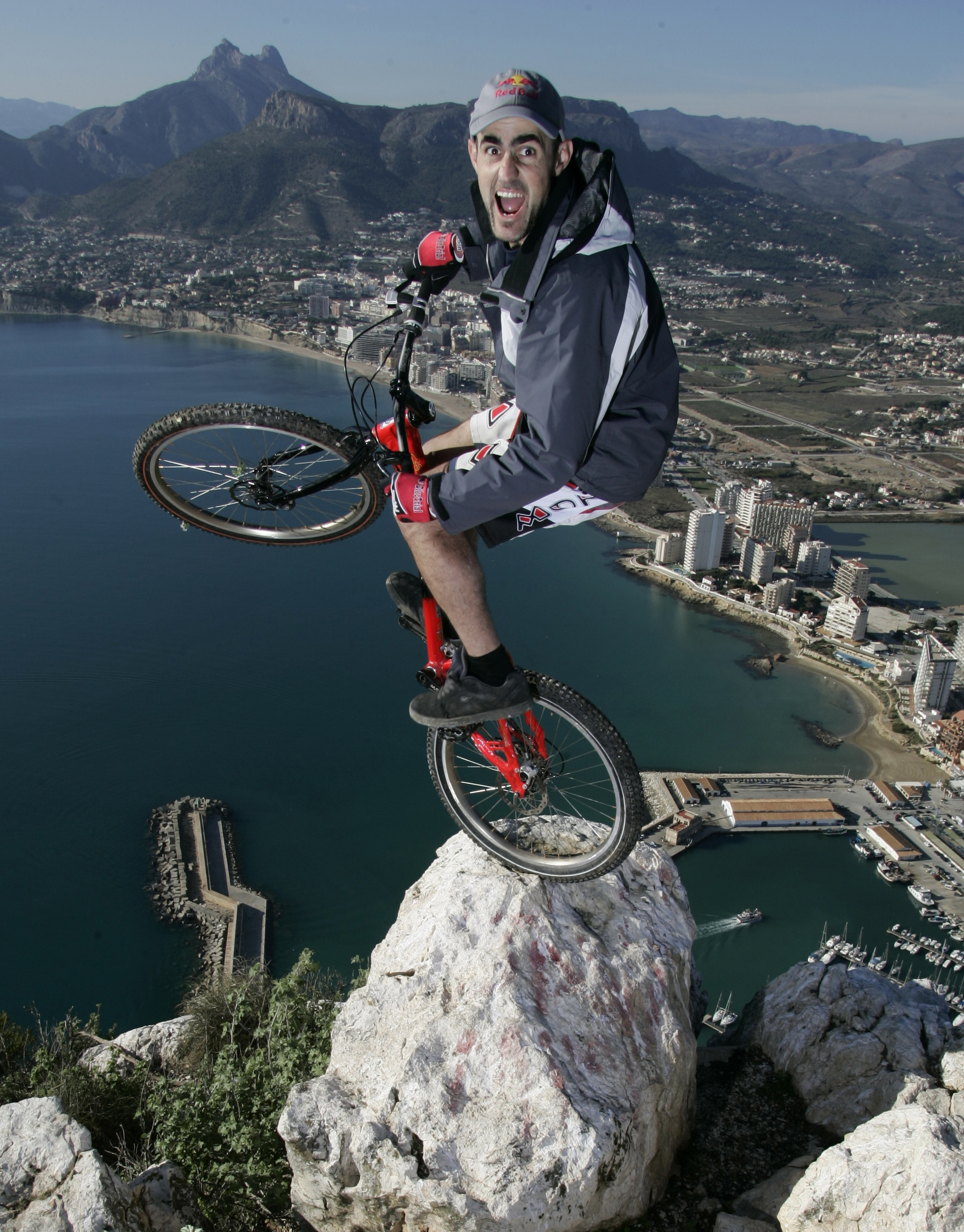 Peñon de Ifach Record